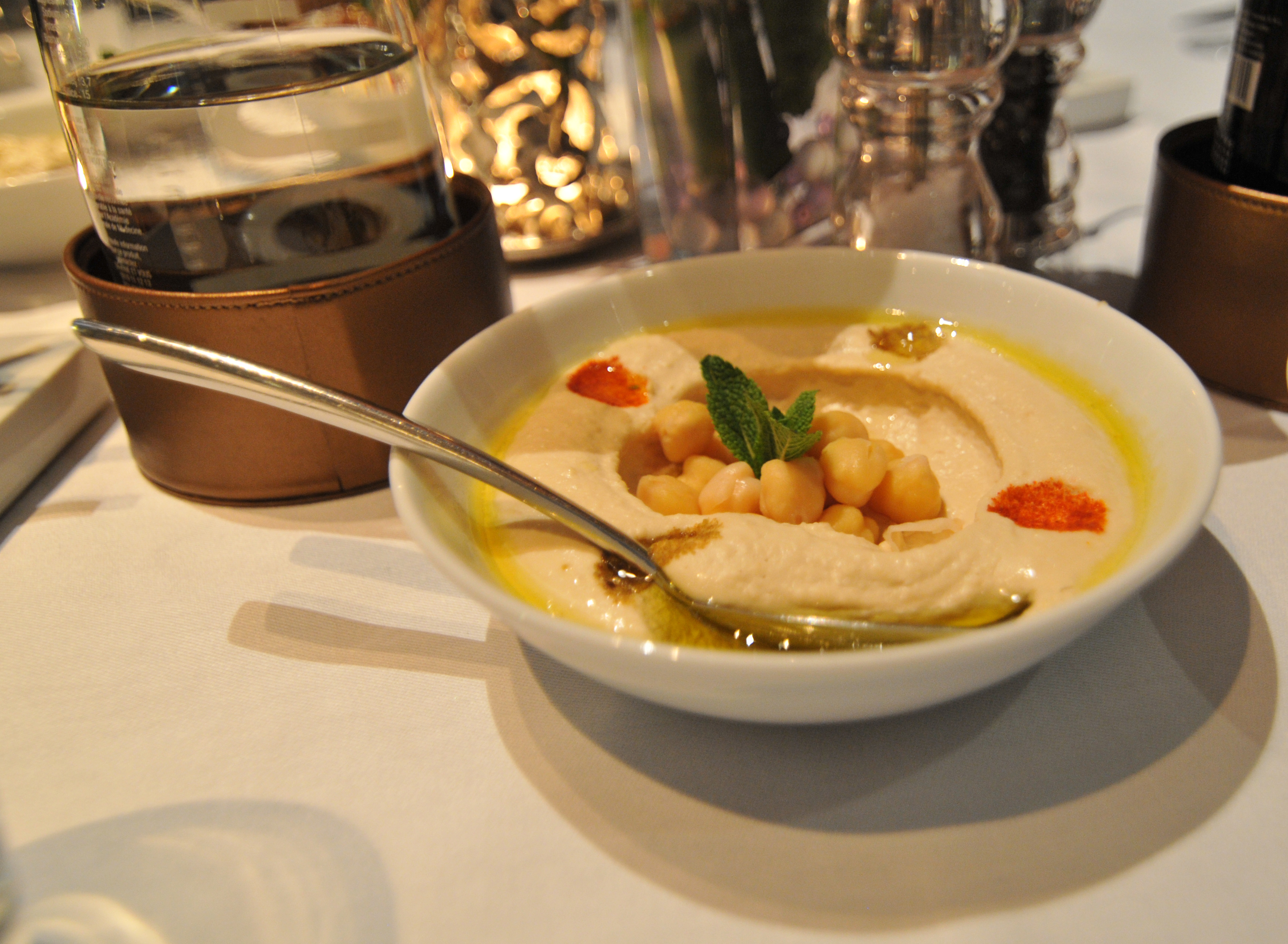 Hoummous